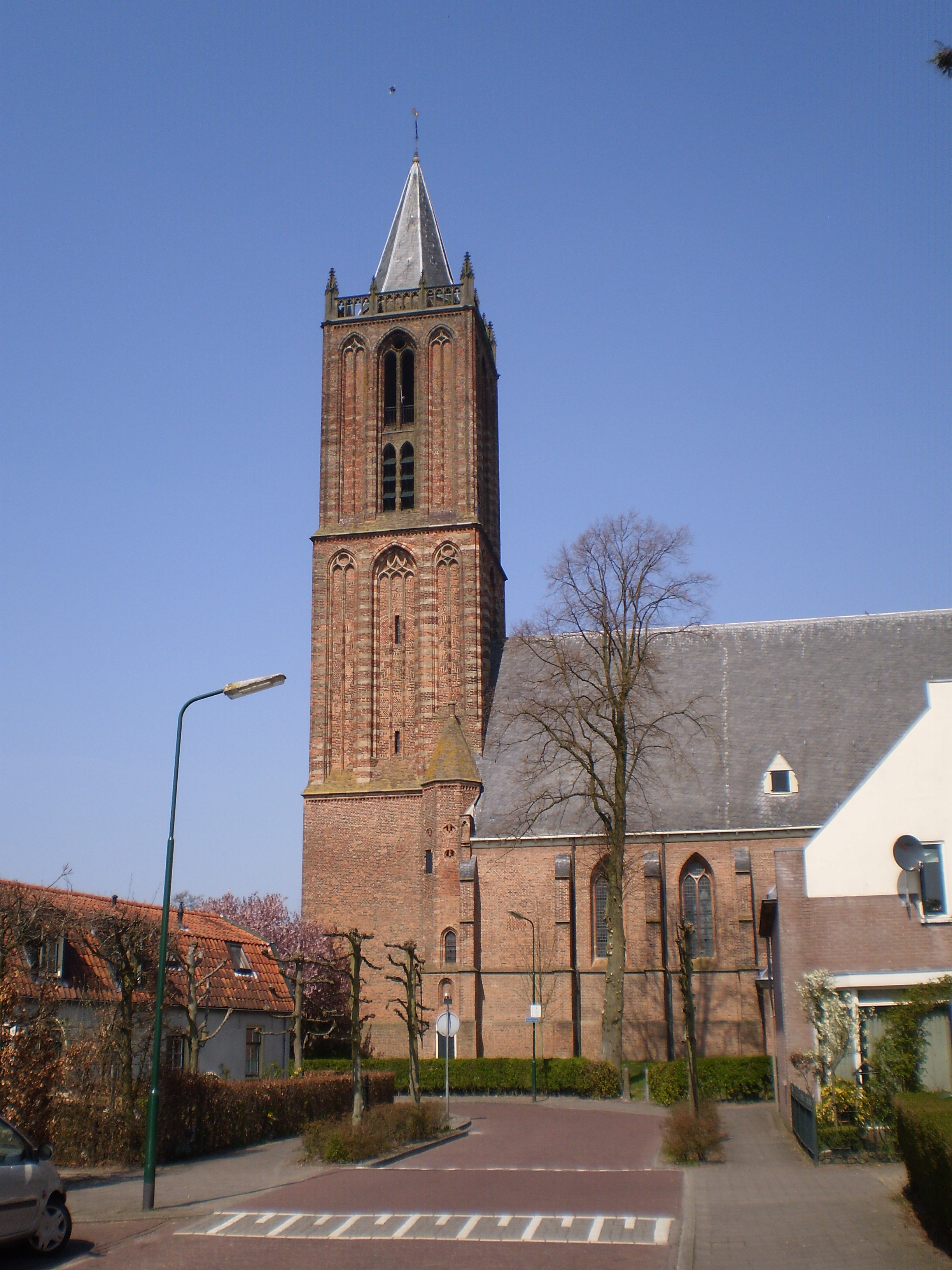 Saint Nicholas Church, Eemnes, the Netherlands